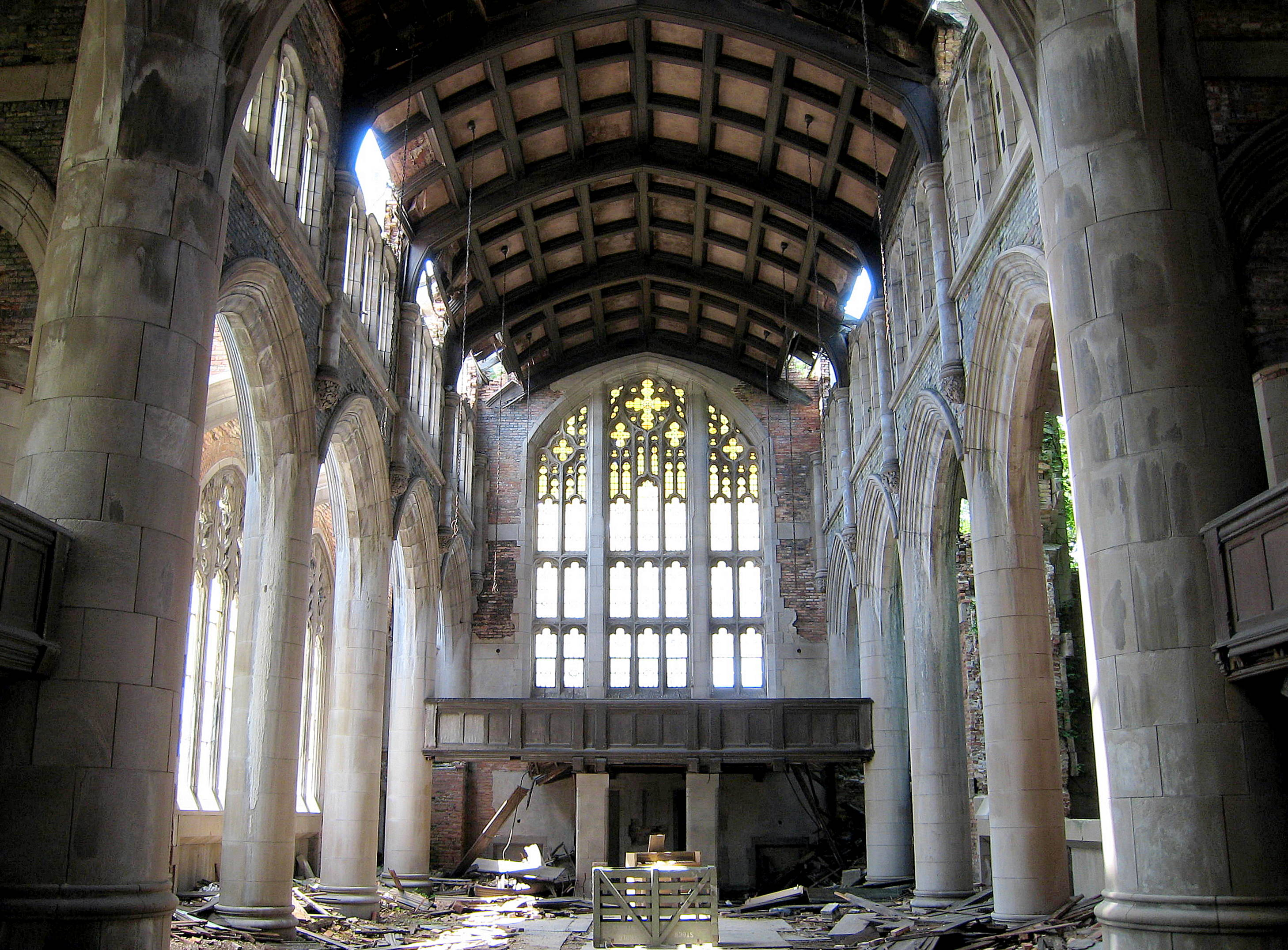 City Methodist Church. main hall, Gary.